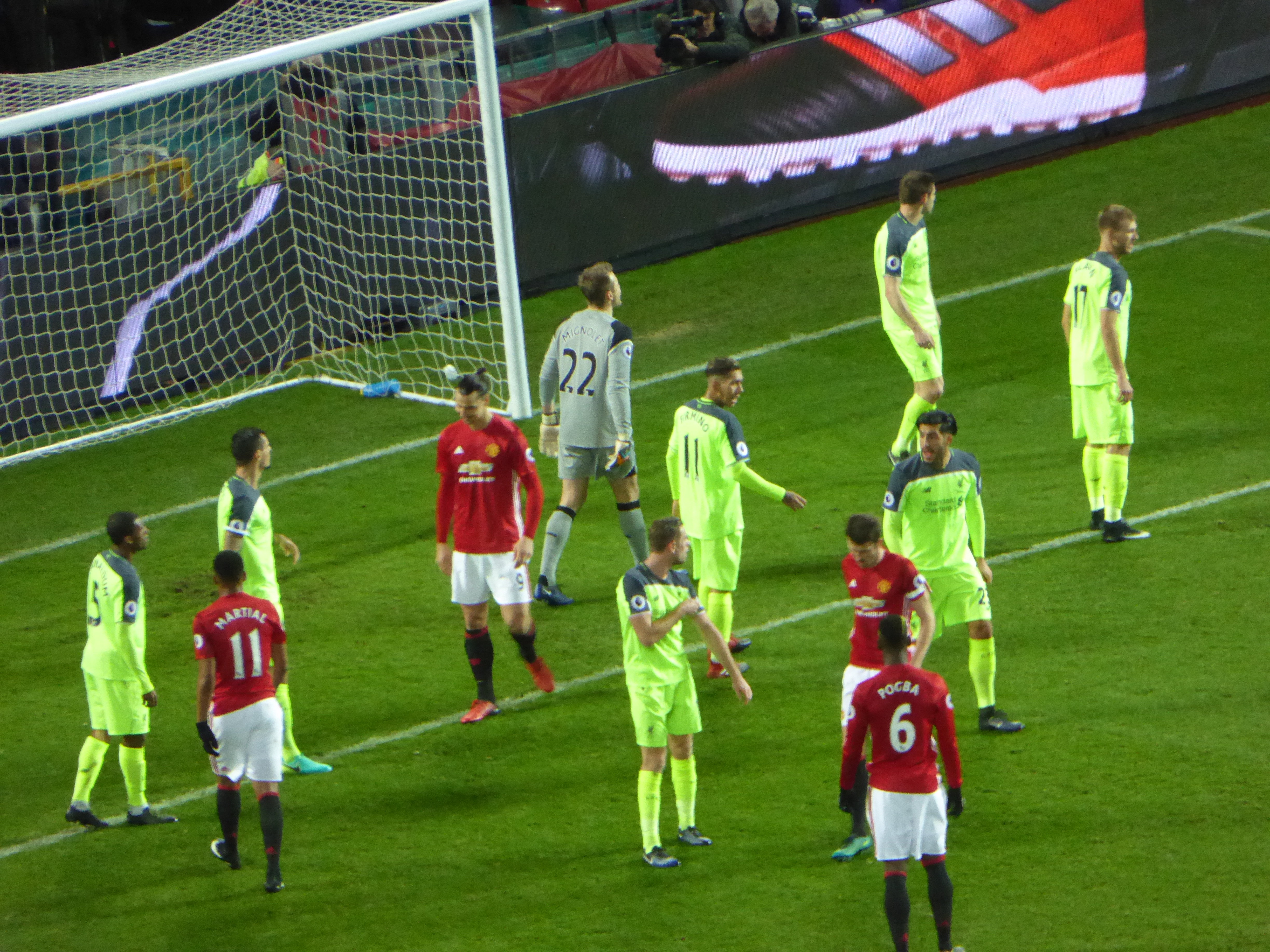 Manchester United v Liverpool (1-1), Premier League, Old Trafford, Manchester, Greater Manchester, England, January 2017